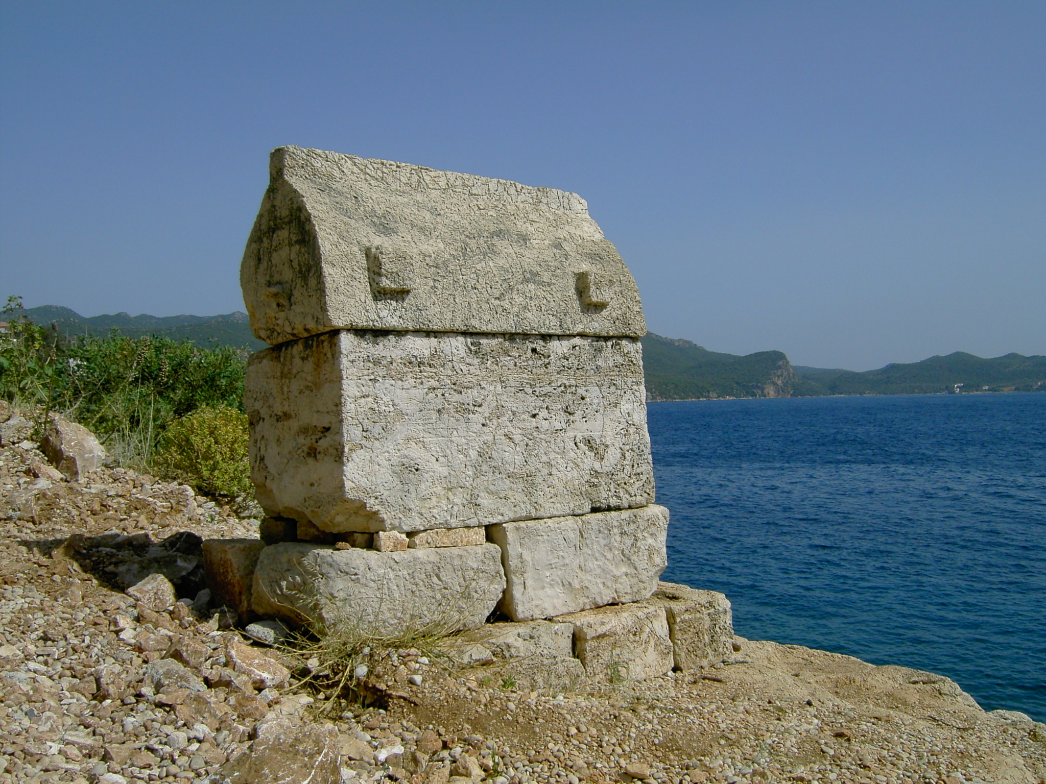 A Lycian sarcophagus overlooking the Mediterranean in Kaş